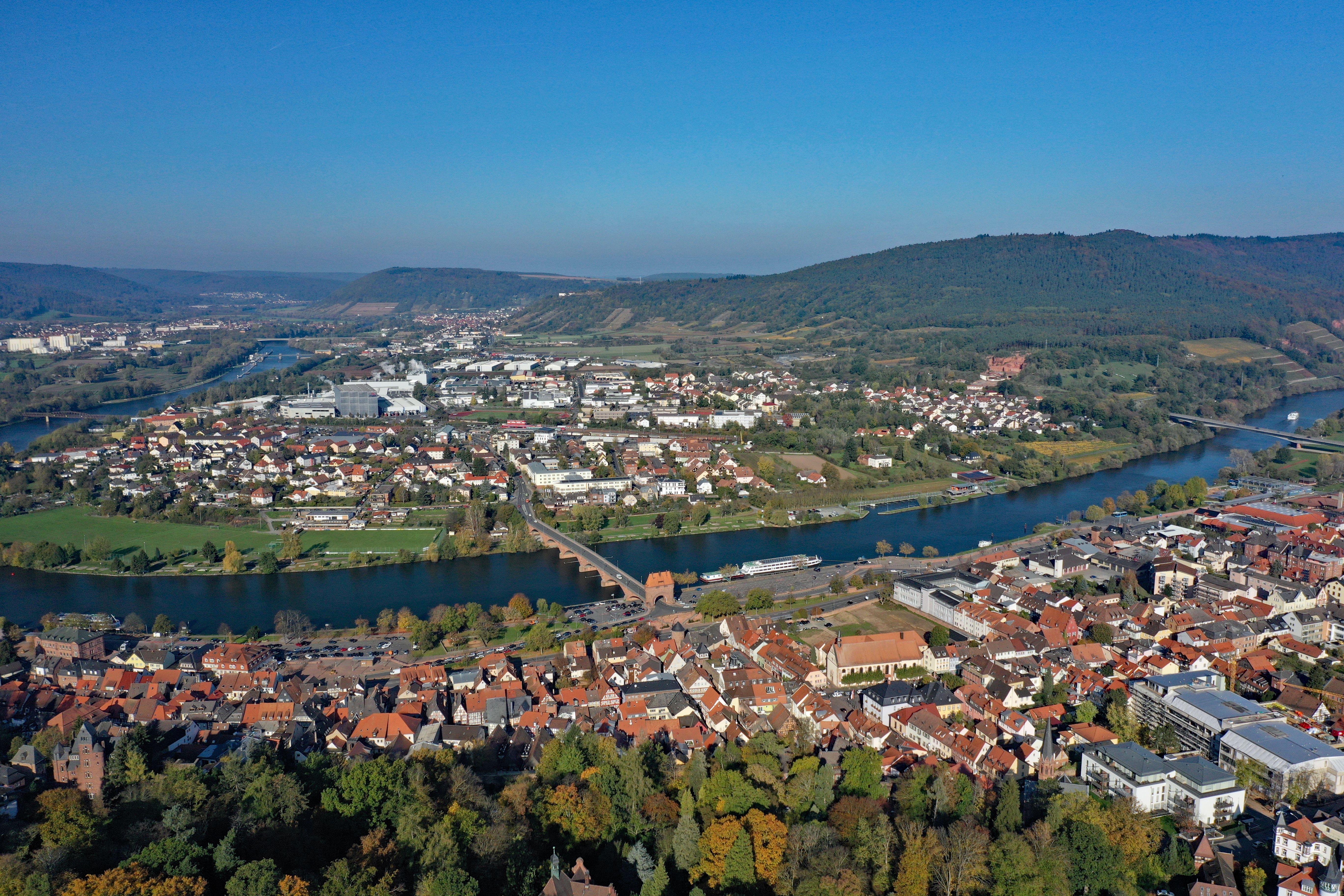 Miltenberg (Lower Franconia, Bavaria, Germany)